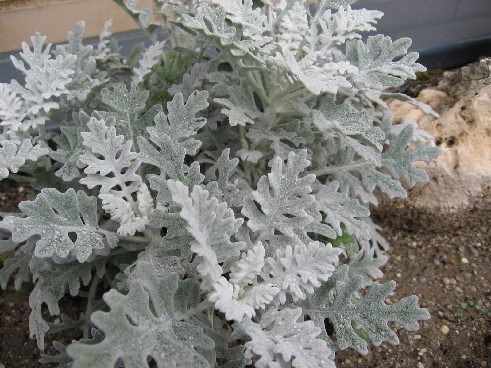 Senecio cineraria